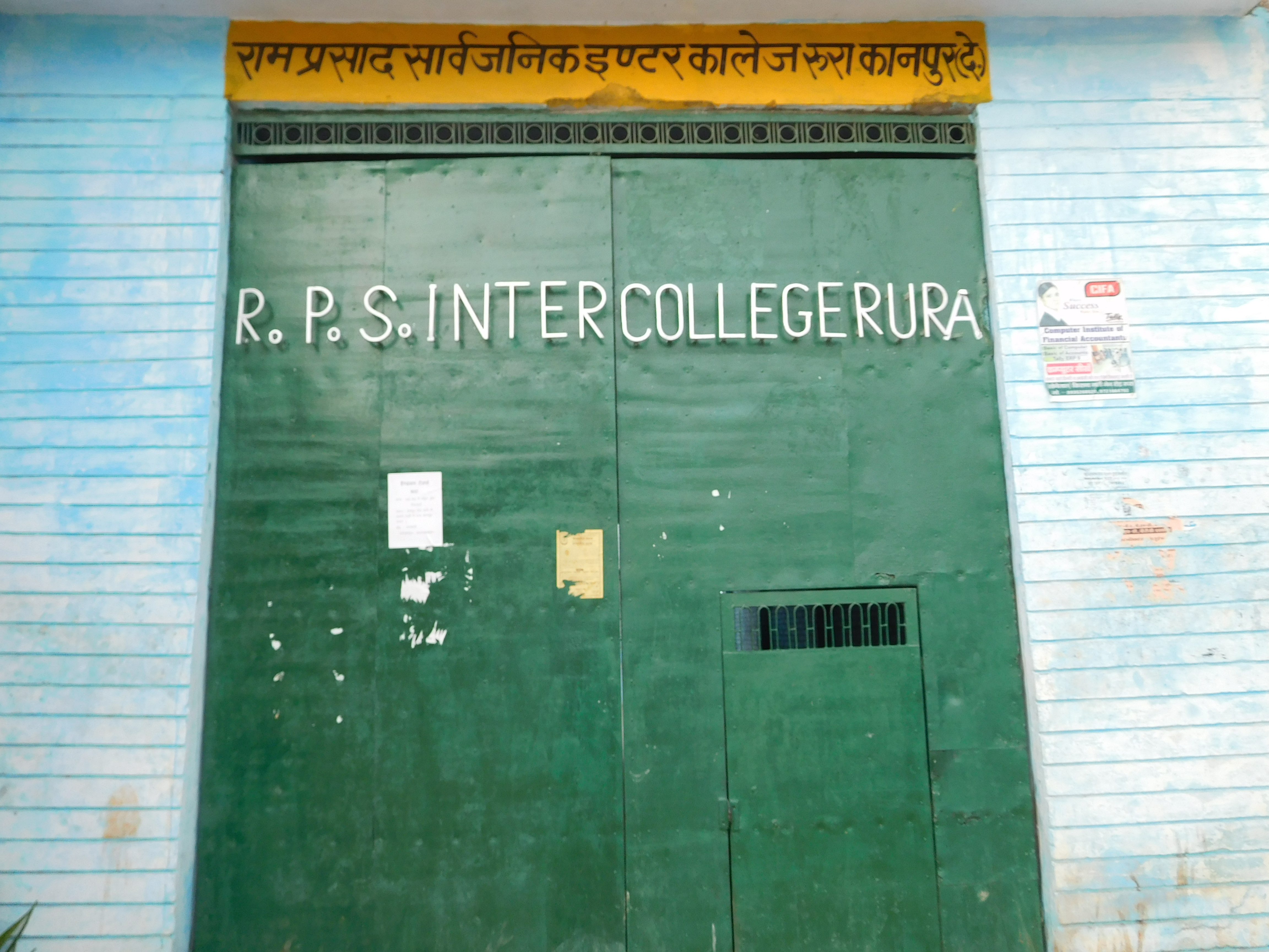 R P S Inter College Rura ,Kanpur Dehat,U P ,India